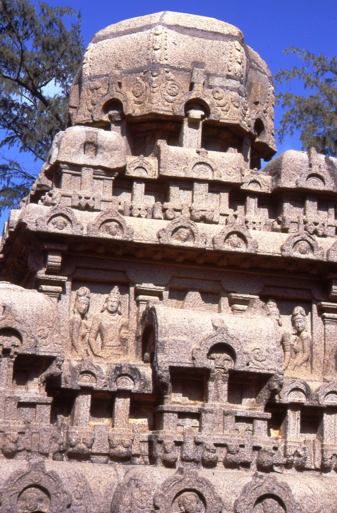 Shore Temple, Mahabalipuram, Tamil Nadu, India